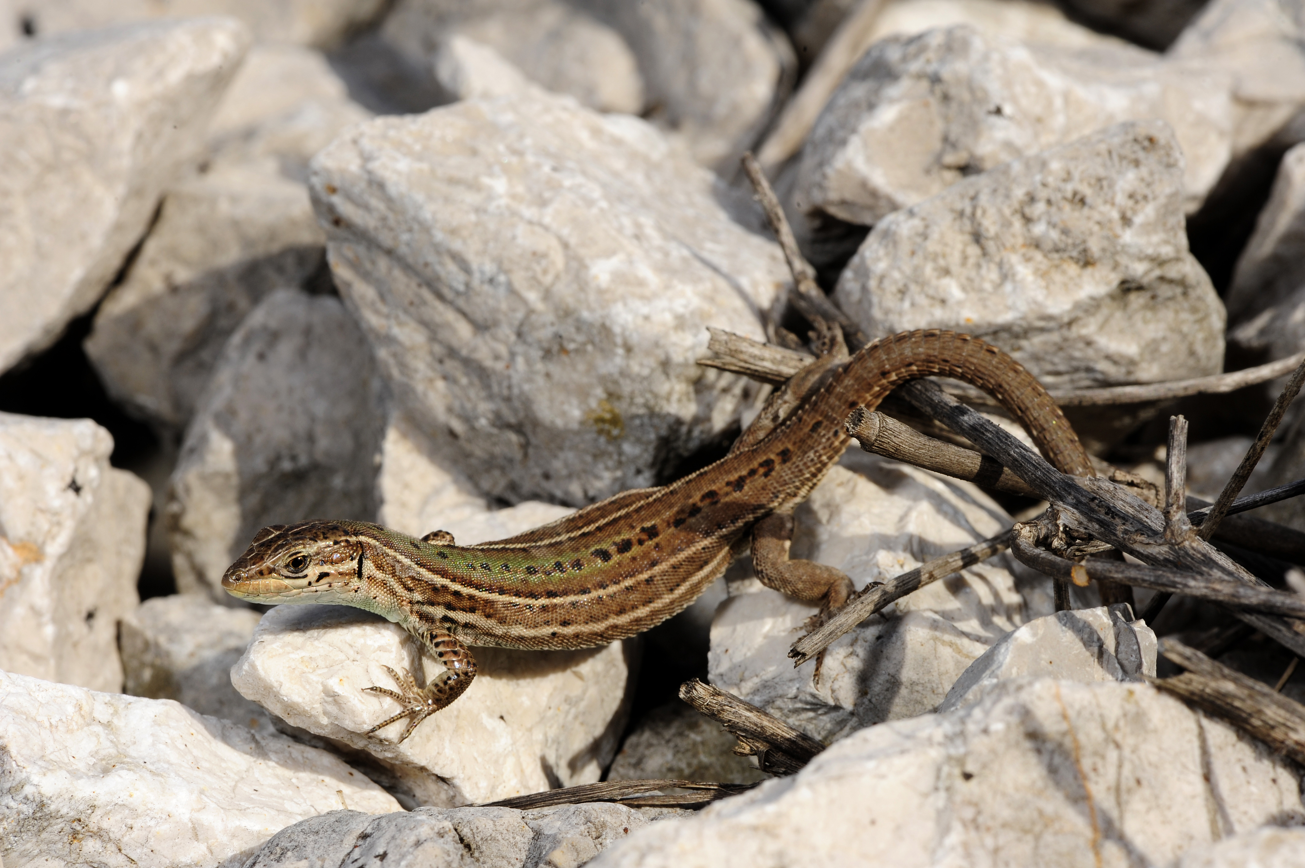 Podarcis melisellensis